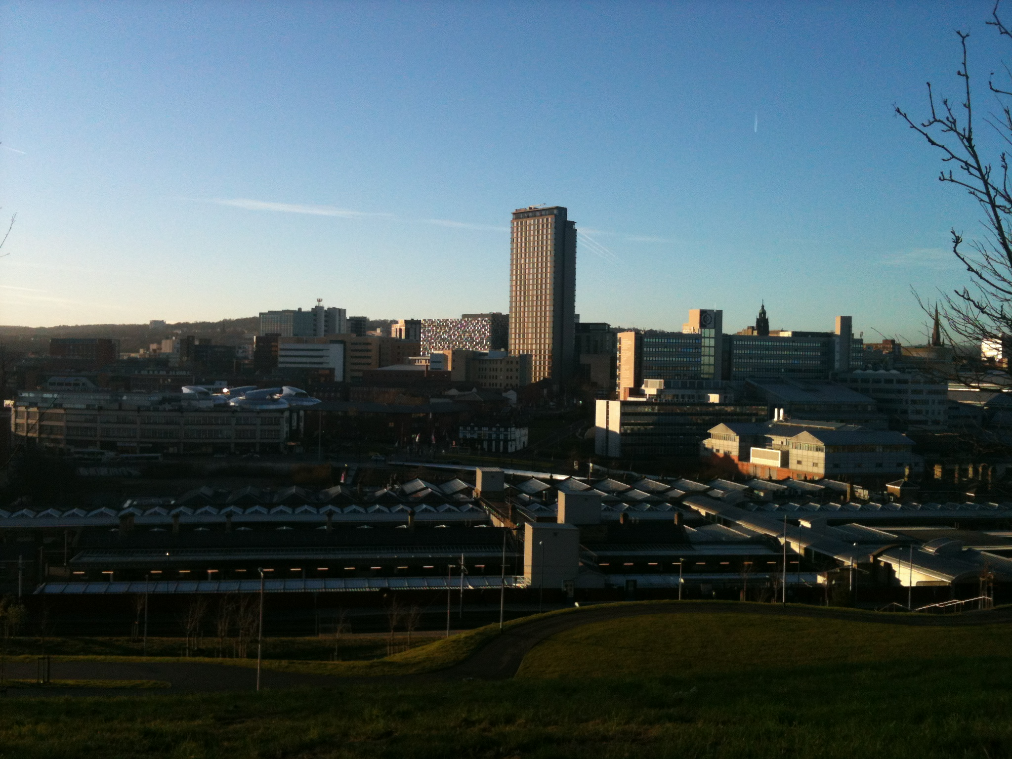 The skyline of Sheffield, UK during the day.